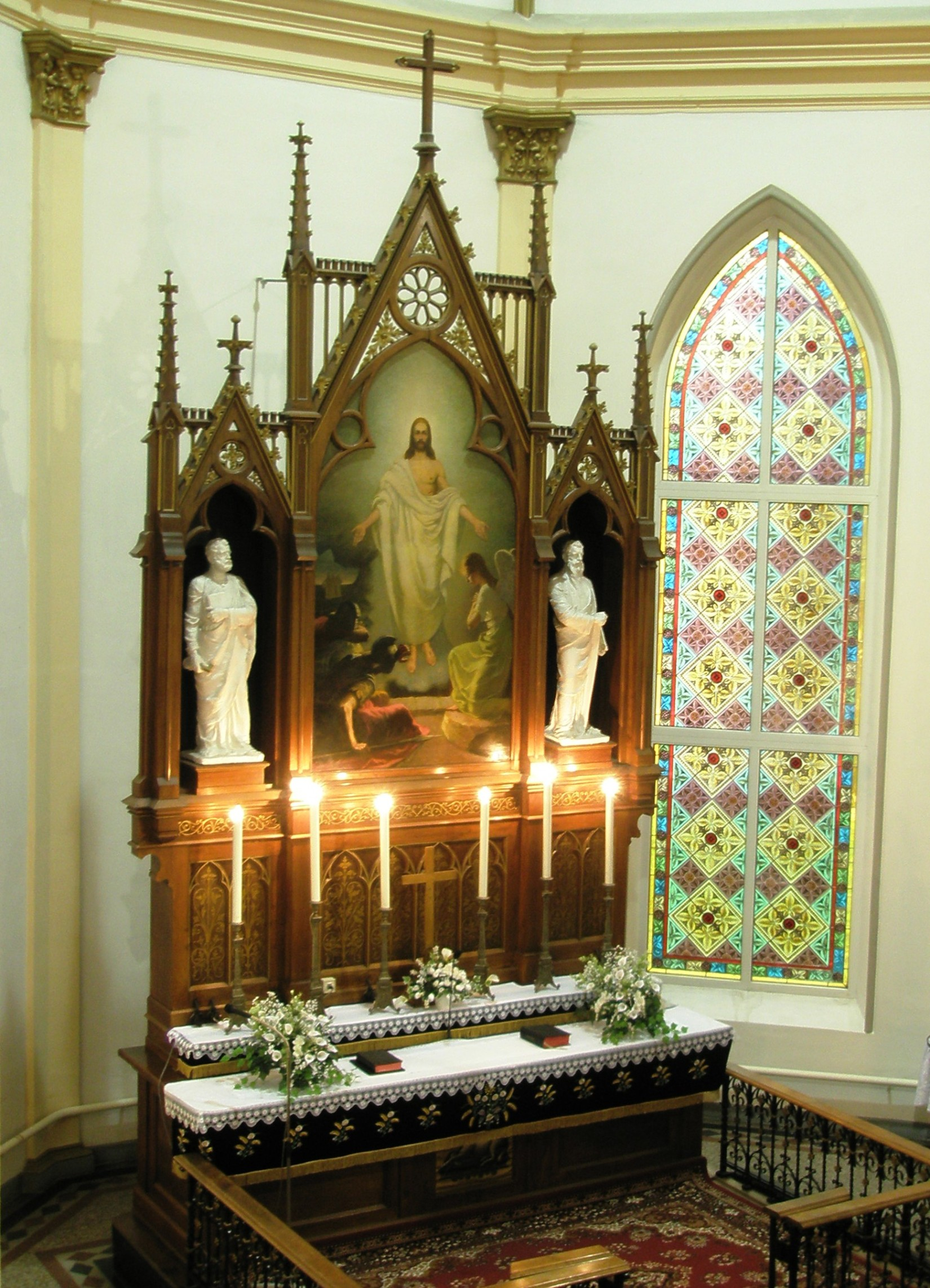 Altar of the Lutheran church in Třinec, Czech Republic.